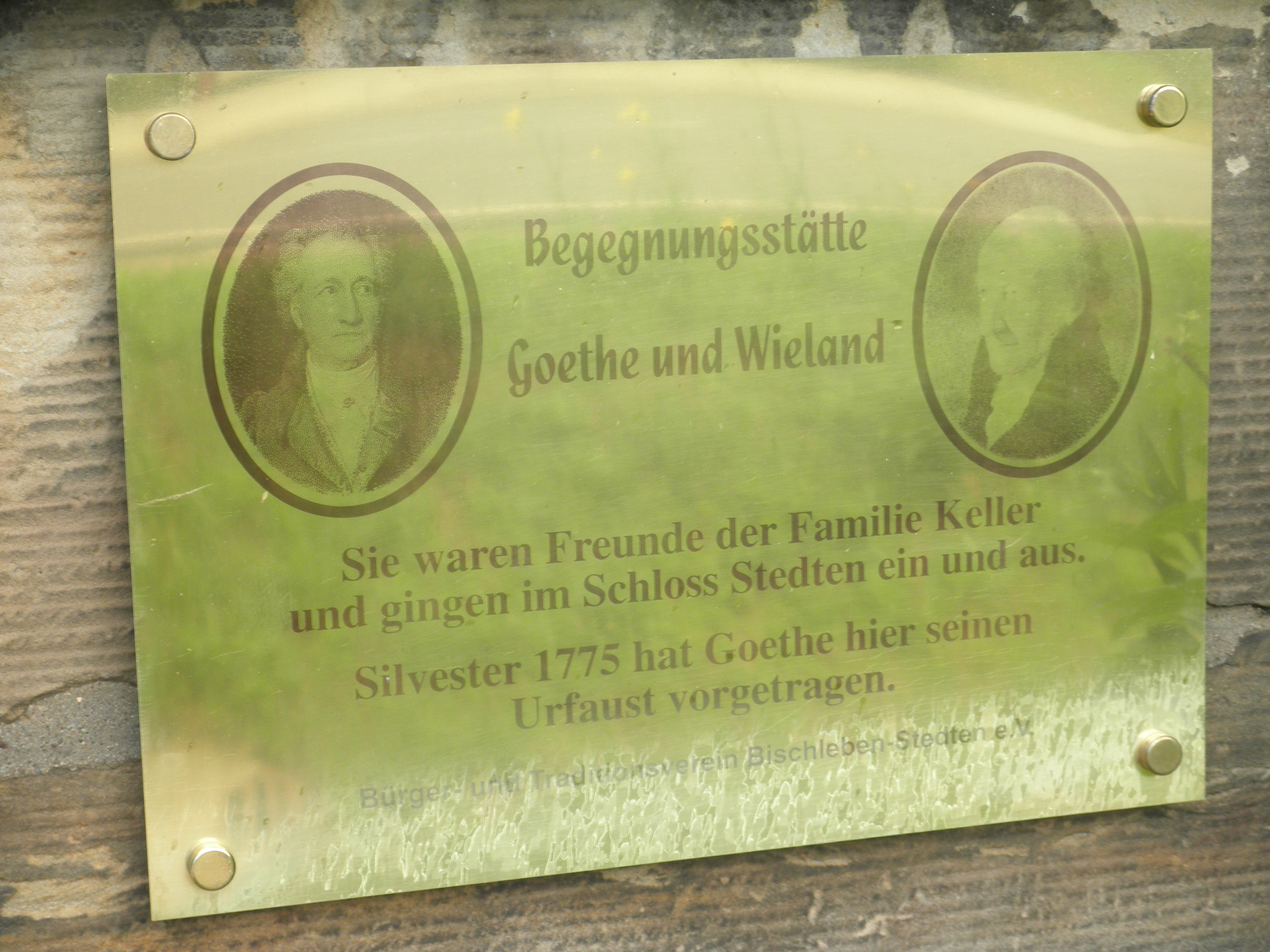 Memorial Tablet for the former Castle in Stedten in Thuringia